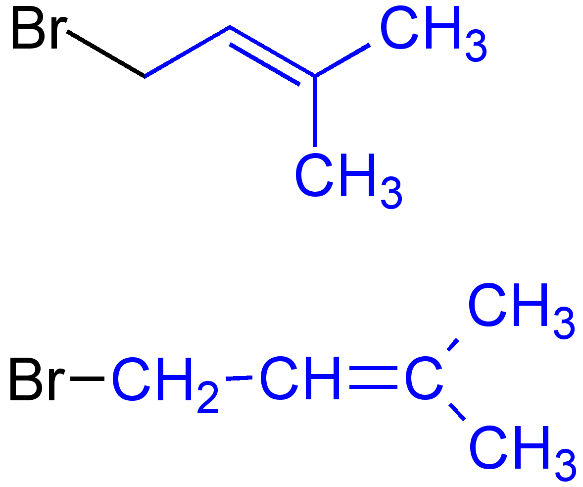 Prenyl_Group